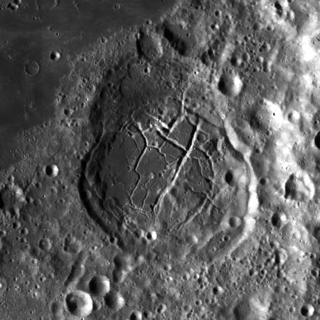 LROC . Beautiful floor fractured crater Komarov lies inside Mare Moscoviense eastern floor, which is seen at upper left of image.